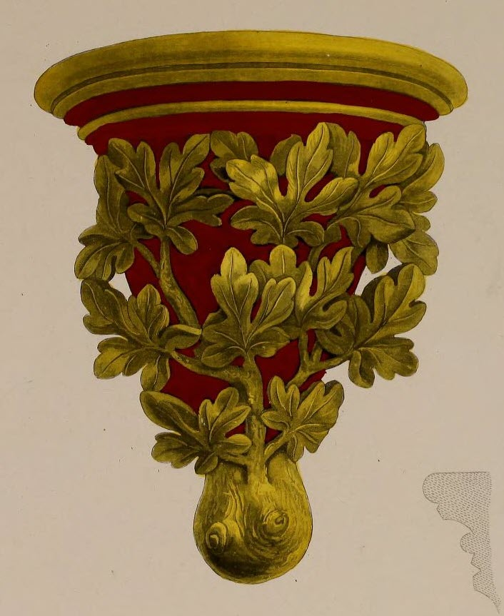 [Detail] The encyclopædia of ornament (1842) In the Mary Ann Beinecke Decorative Art Collection. Sterling and Francine Clark Art Institute Library.